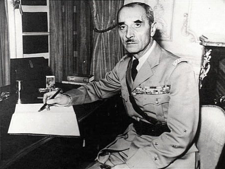 Portrait of General Georges Catroux, former Governor of French Indo-China, who was superseded when he refused to carry out the instructions of the Vichy Government. He joined General Charles De Gaulle's staff with the Free French forces.